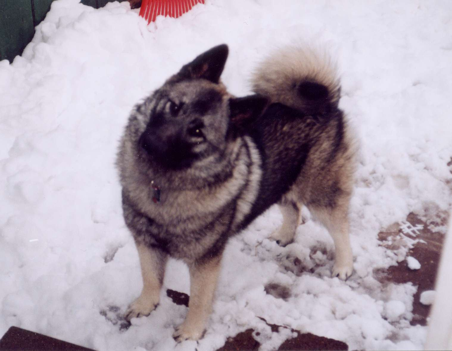 Norwegian Elkhound